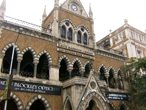 Situated at Fort, Mumbai